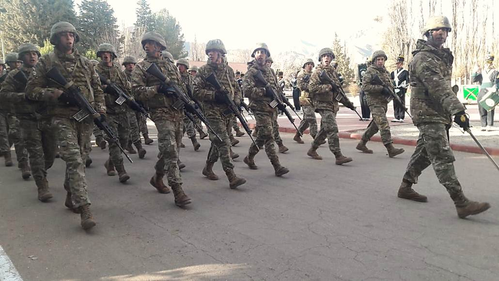 Argentine Army 16th Mountain Infantry Regiment in Flag Day